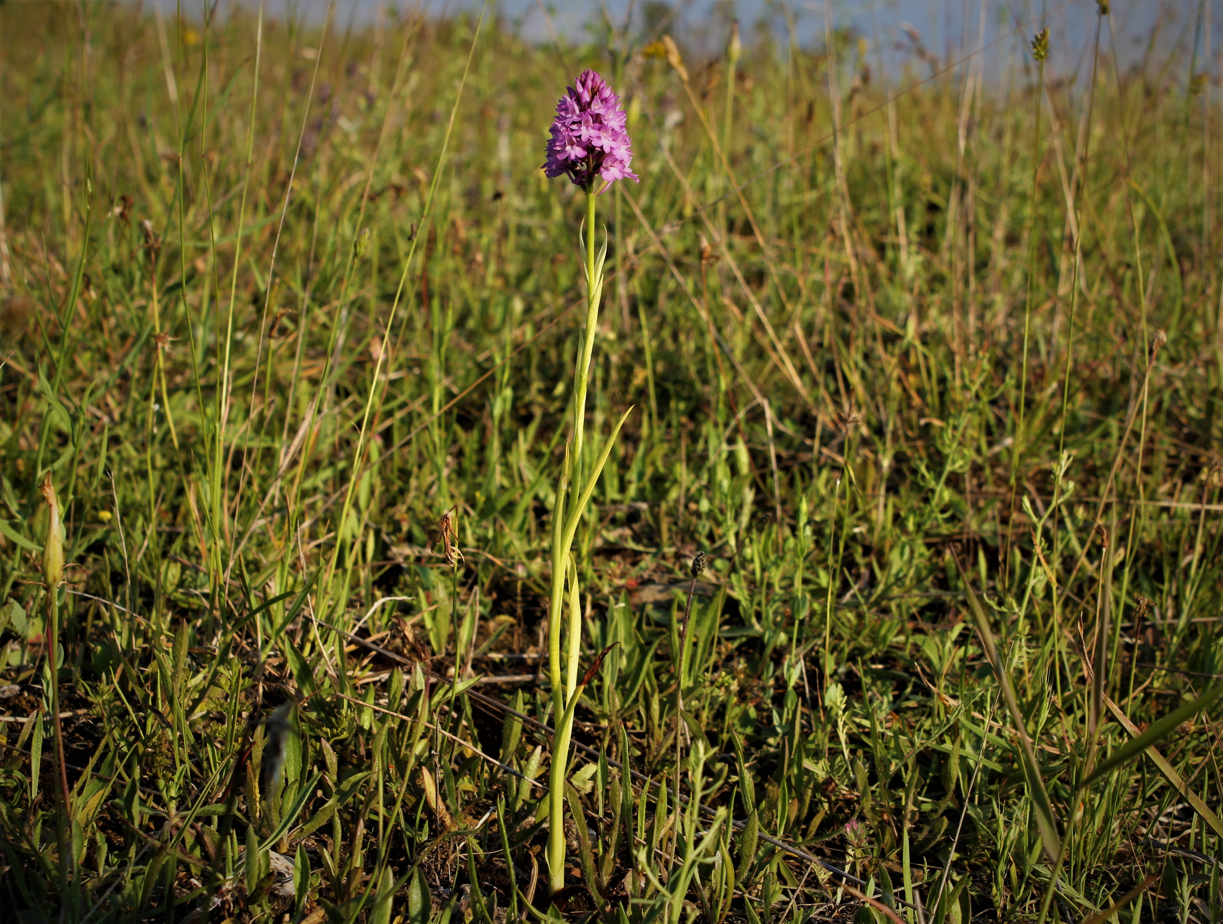 Anacamptis pyramidalis scape